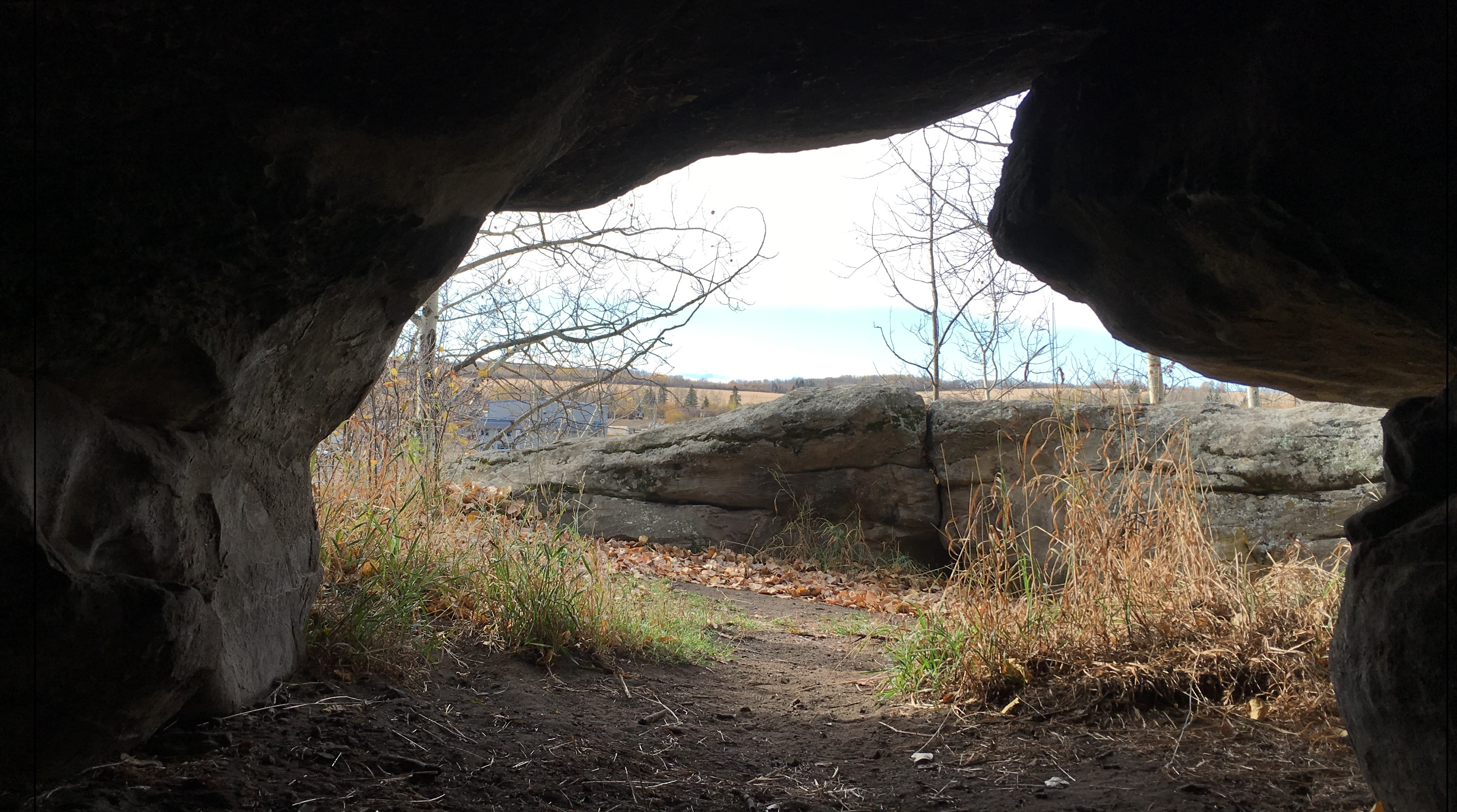 This is a view from the inside of the Charlie Lake Cave looking out.